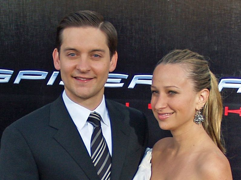 American actors Tobey Maguire and his wife Jennifer Meyer at the premiere of Spiderman 3 in Queens, New York.